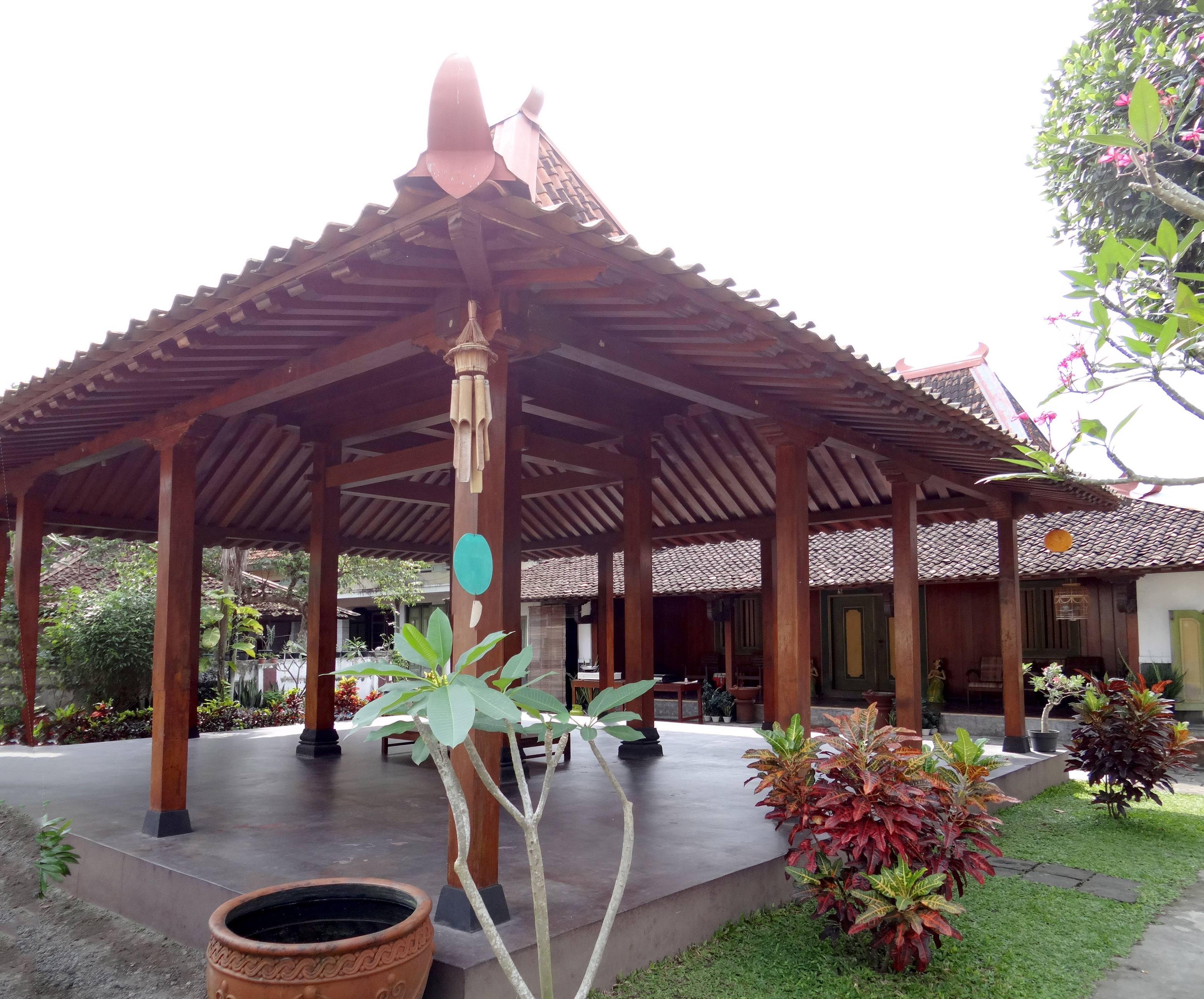 A joglo in Jagalan district